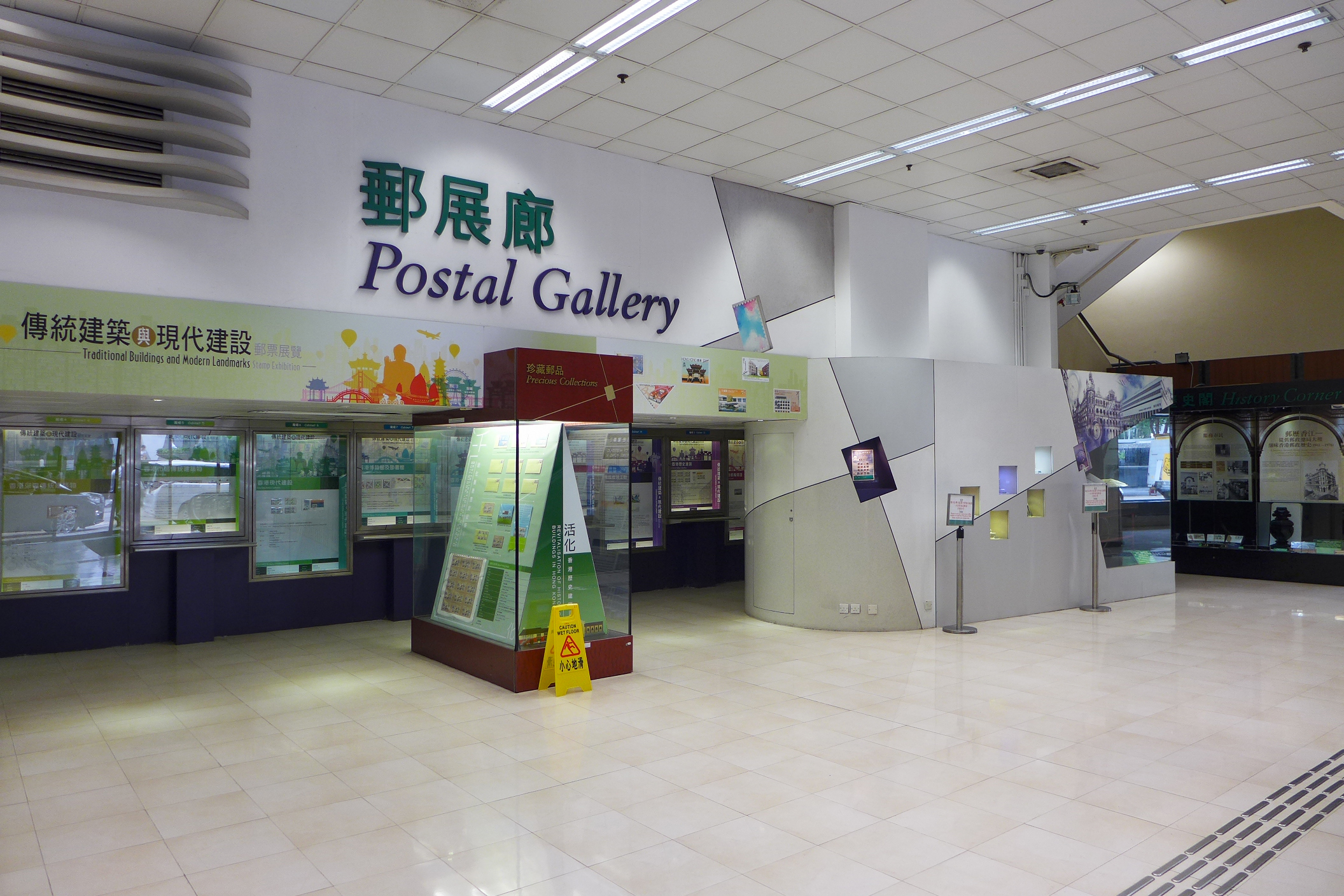 General Post Office Postal Gallery